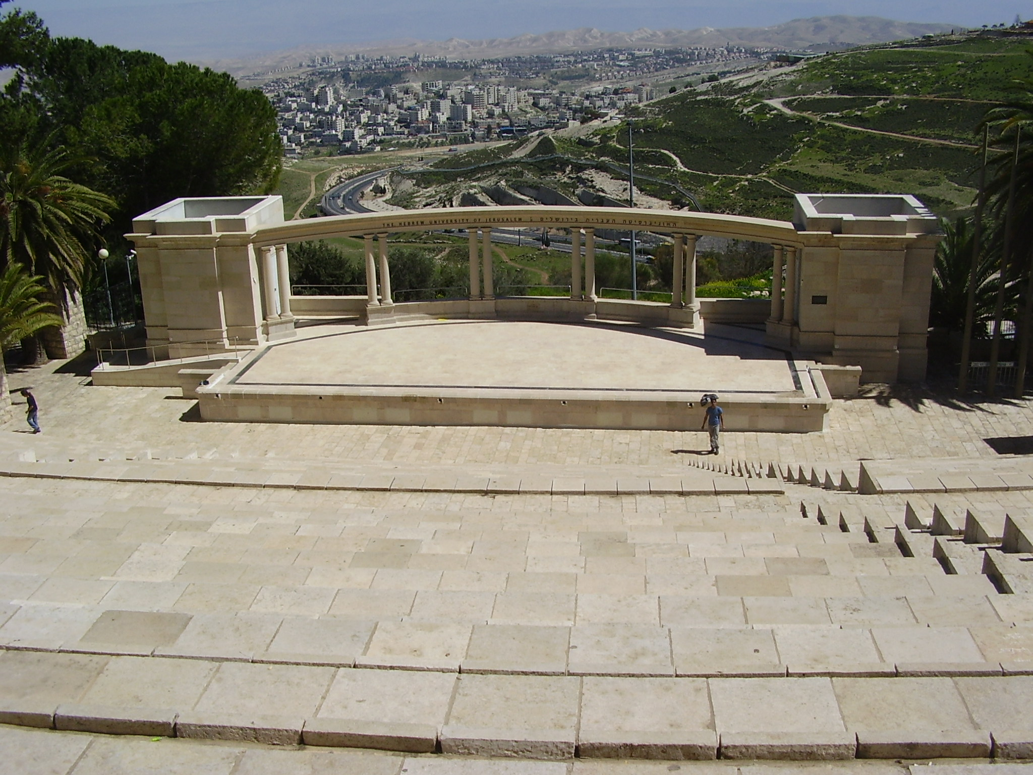 amphitheater in mount scopus